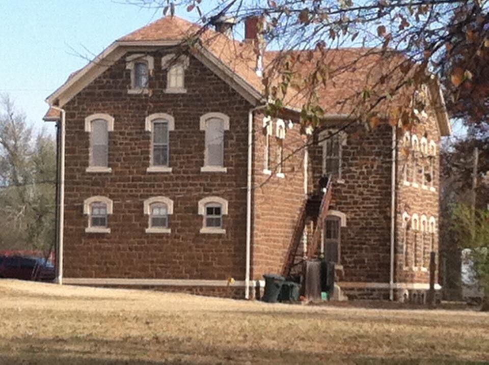 Brookville Grade School